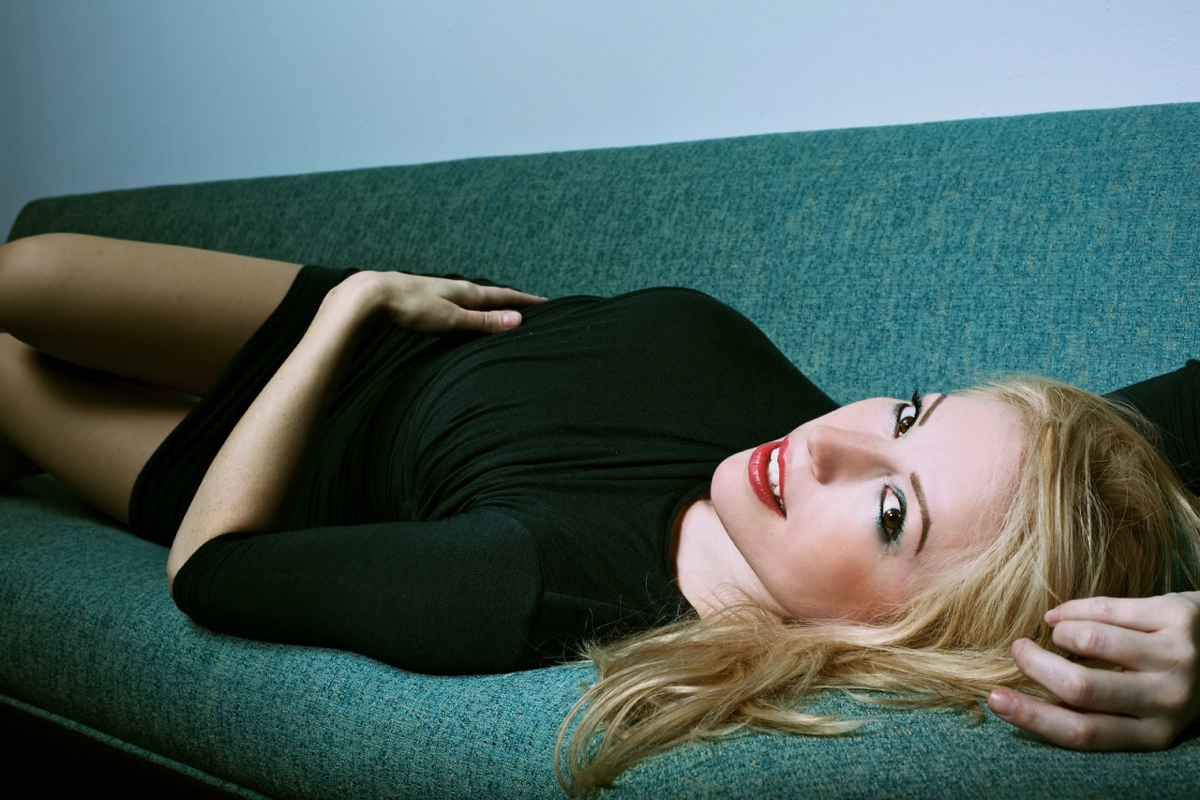 Photo of the musical artist, Kaitee Page